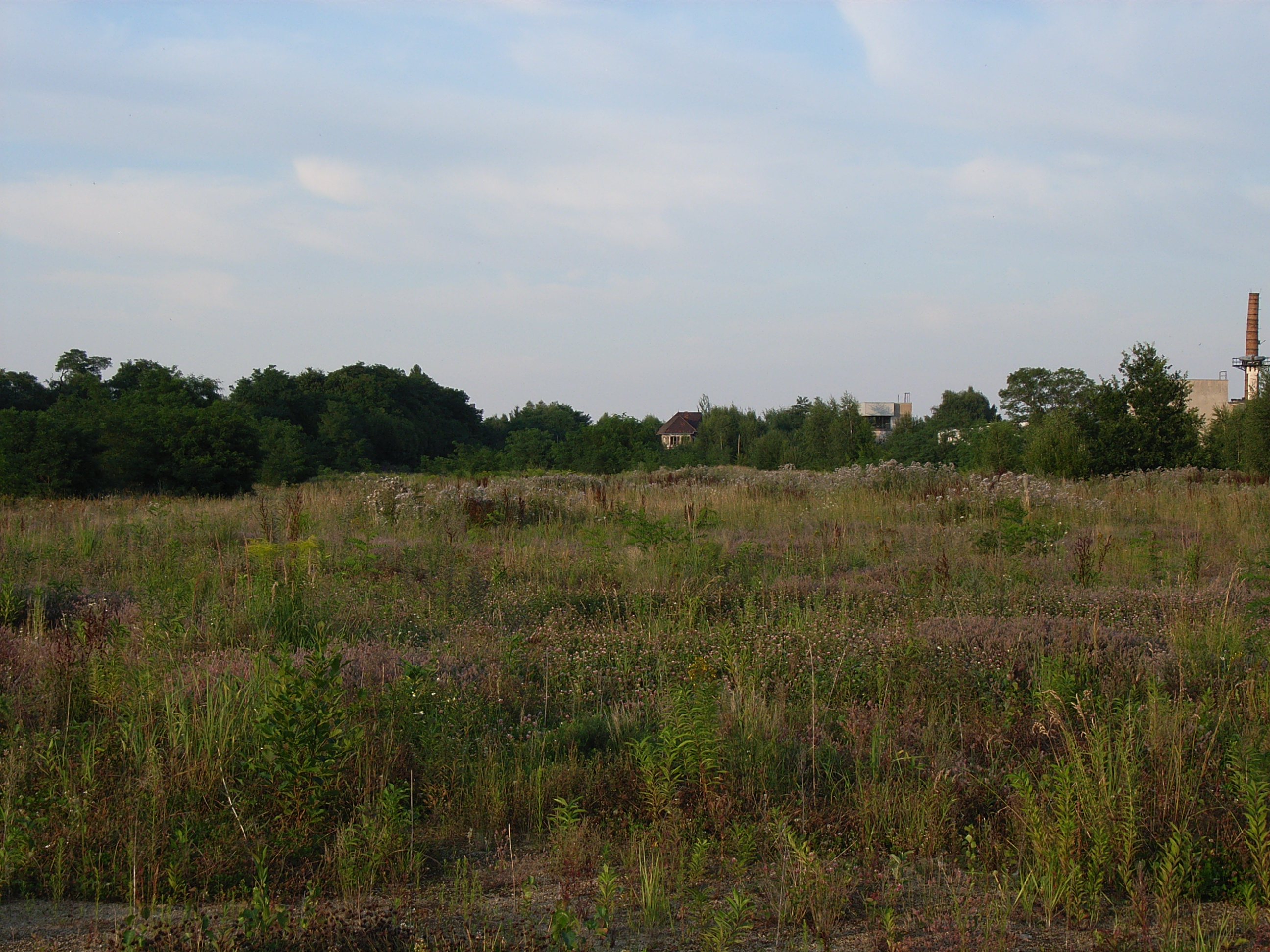 old classification yard and in the background the old interlocking block "Snt" (Schlauroth northern tower) in Schlauroth, Görlitz, Saxon